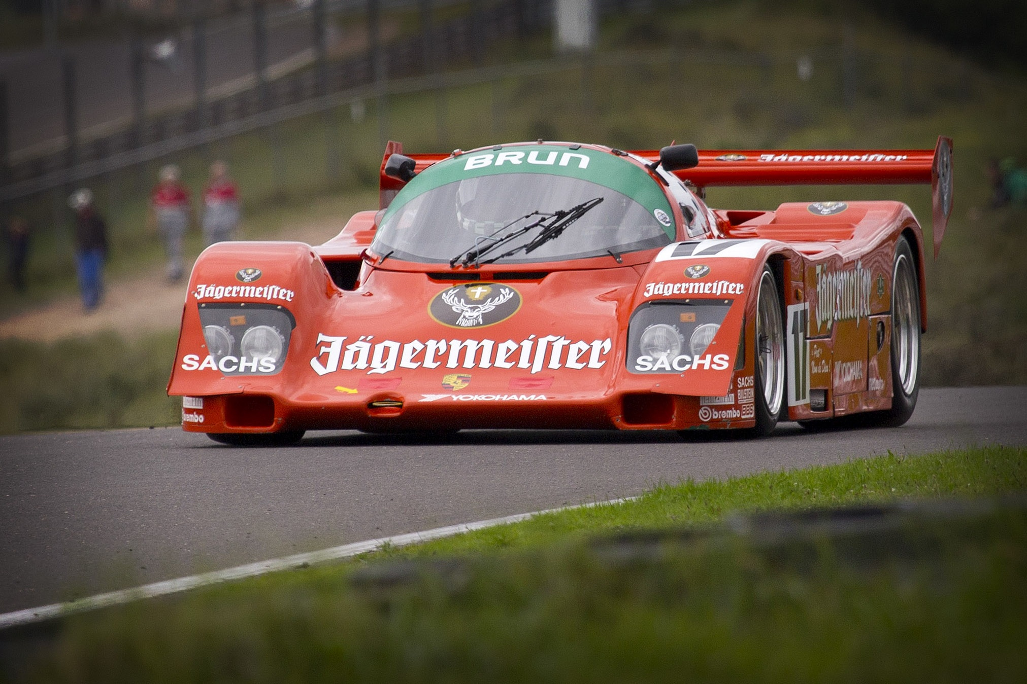 A Porsche 962C race car, in Brun Motorsport's orange Jagermeister livery.